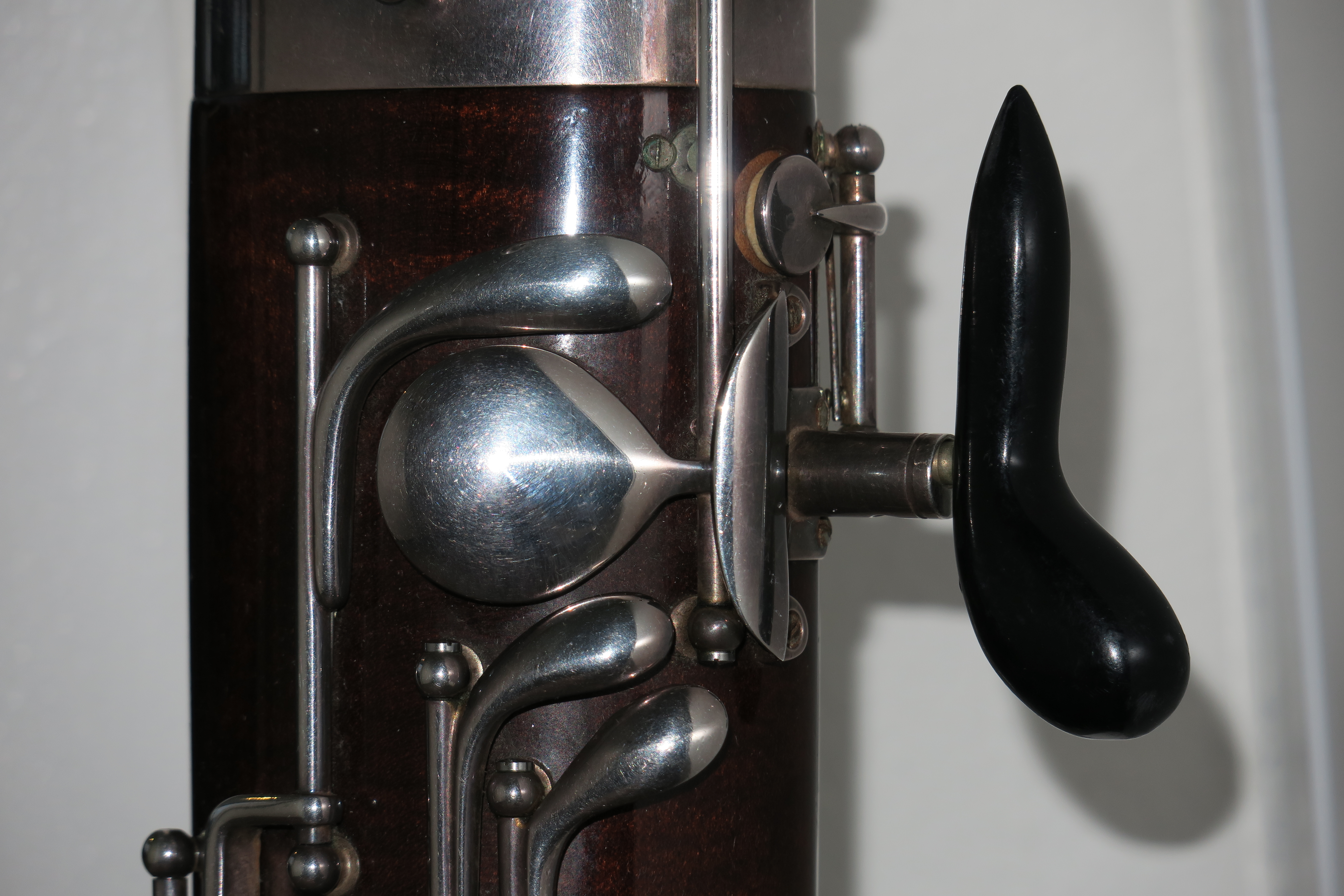 Close-up of bassoon with handrest attached, viewed from behind.